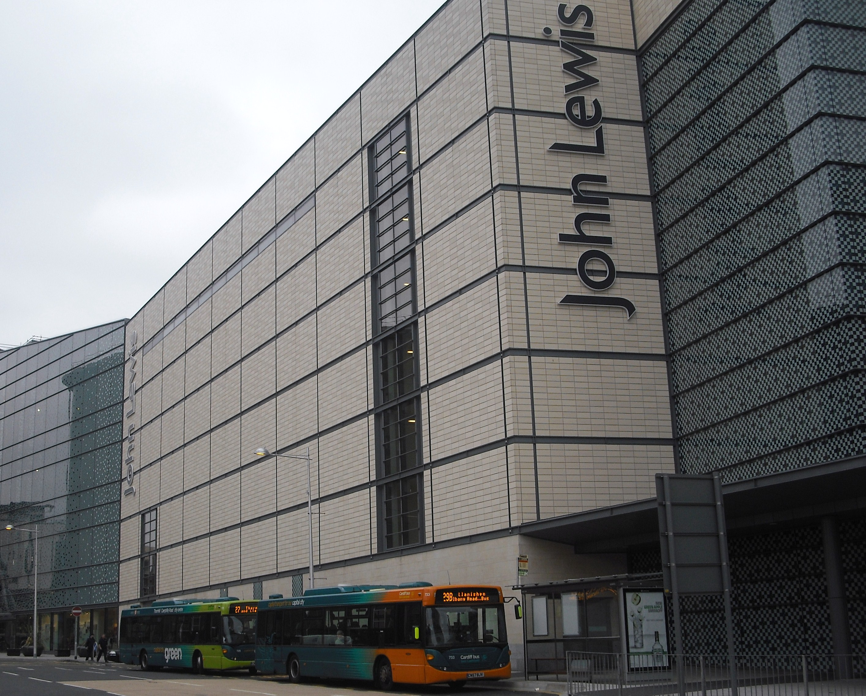 Cardiff Bus services at The Hayes in April 2010